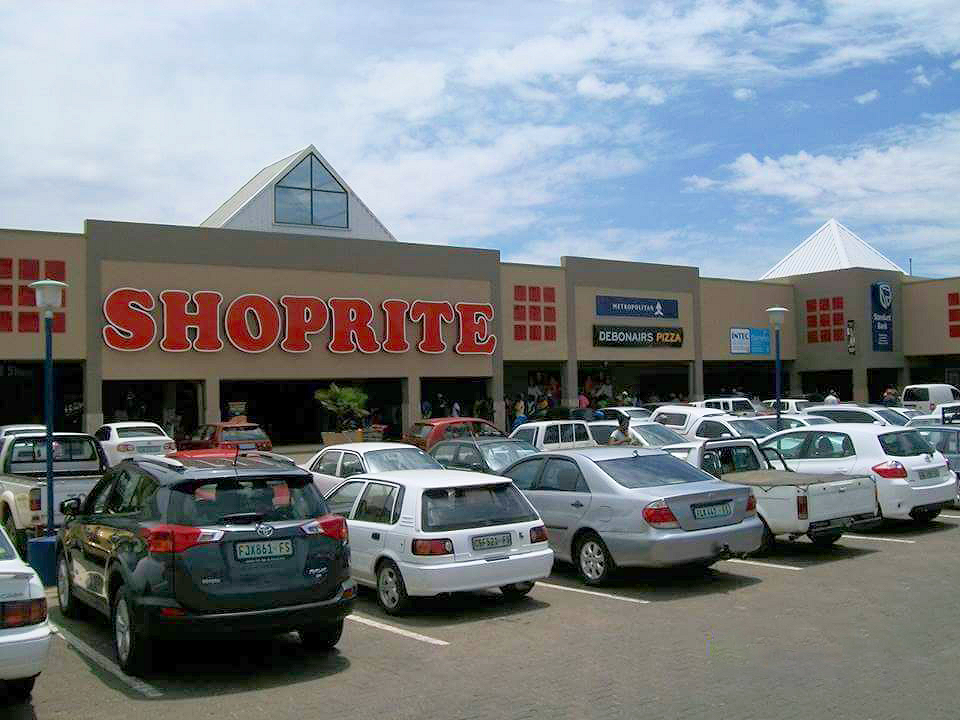 Mandela park mall